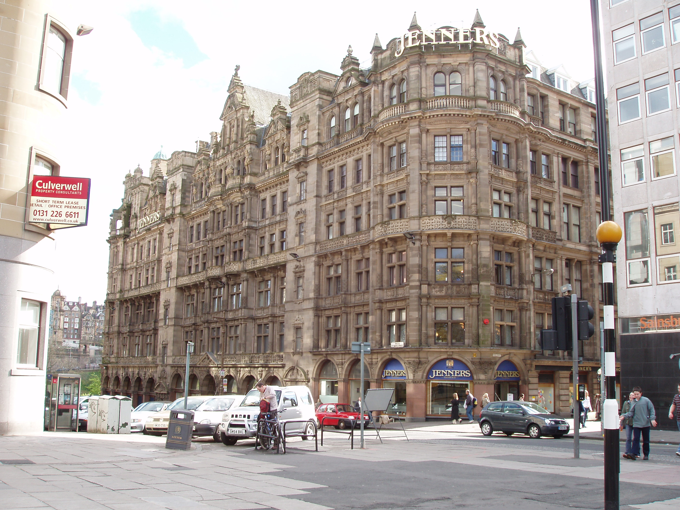 Jenners Department Store, Princess Street, Edinburgh, Scotland. Architect: William Hamilton Beattie